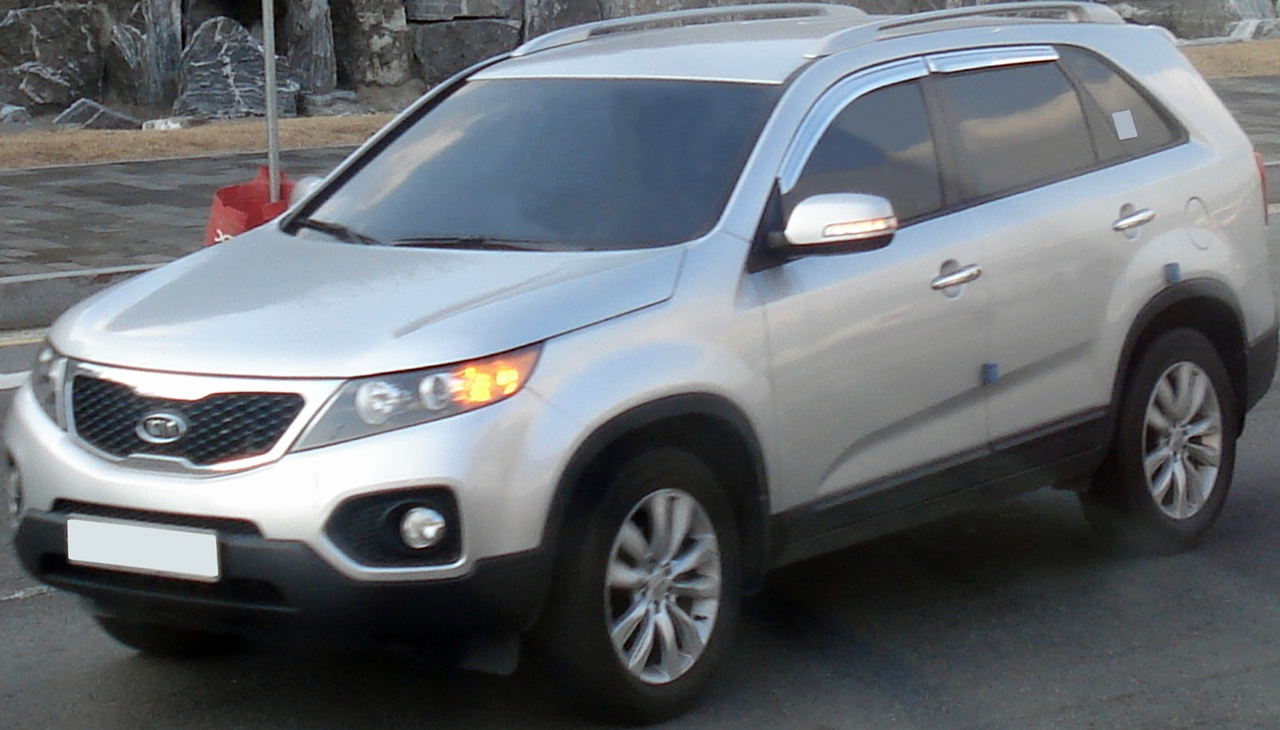 Kia Sorento R